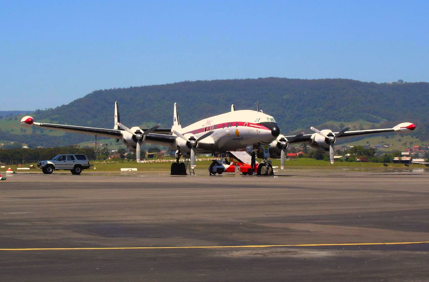 The HARS Super Connie at Albert Park (Woollongong)